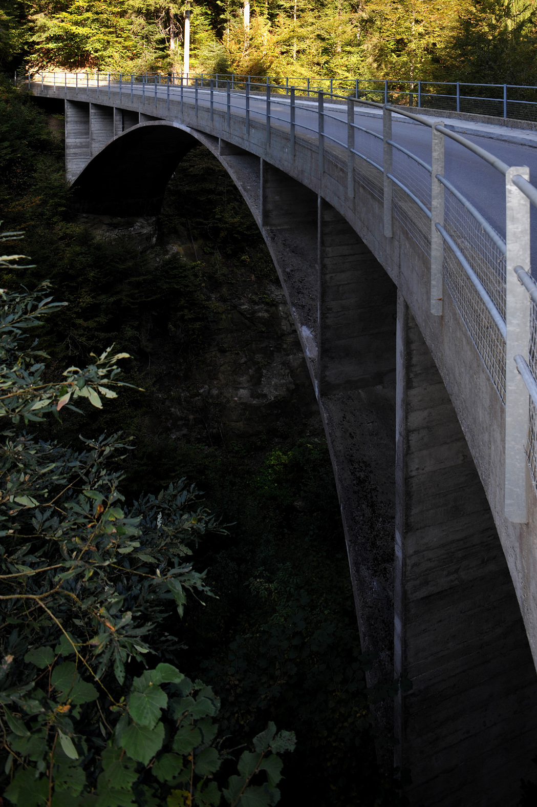 Schwandbach bridge by Robert Maillart near Schwarzenburg, 1933; Berne, Switzerland